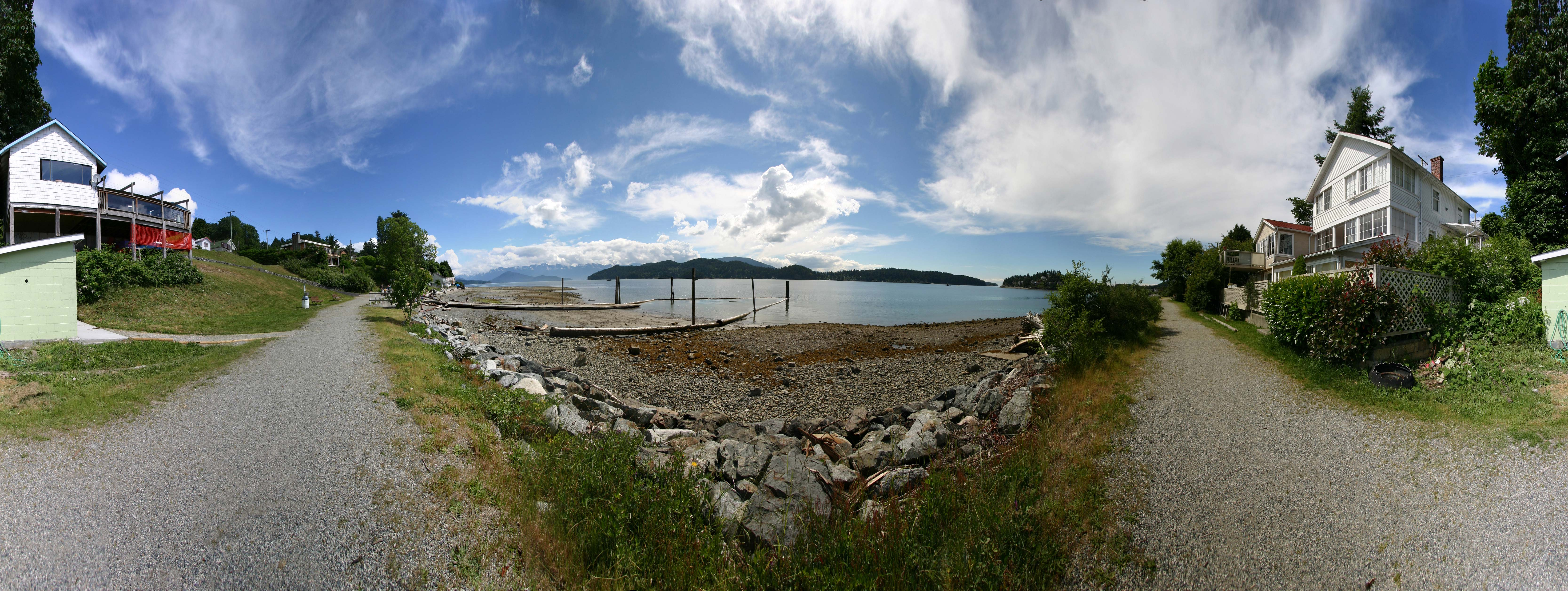 360° panorama of Sunshine Coast (British Columbia), showing Beach trail near town Gibsons and Keats Island in distance